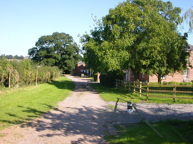 Cosford - Main Street. Small settlement close to M6 Motorway.